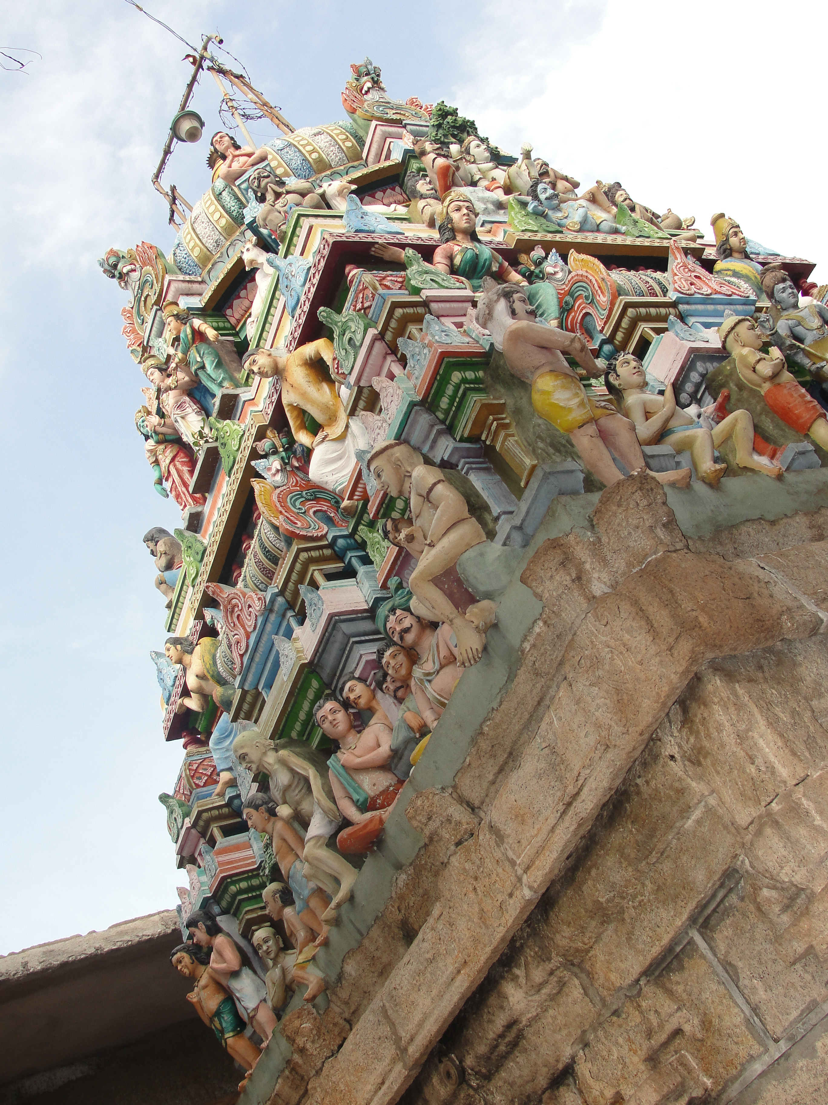 A view of Kaalaangi Sithtar Temple, Salem District, Tamil Nadu, India.